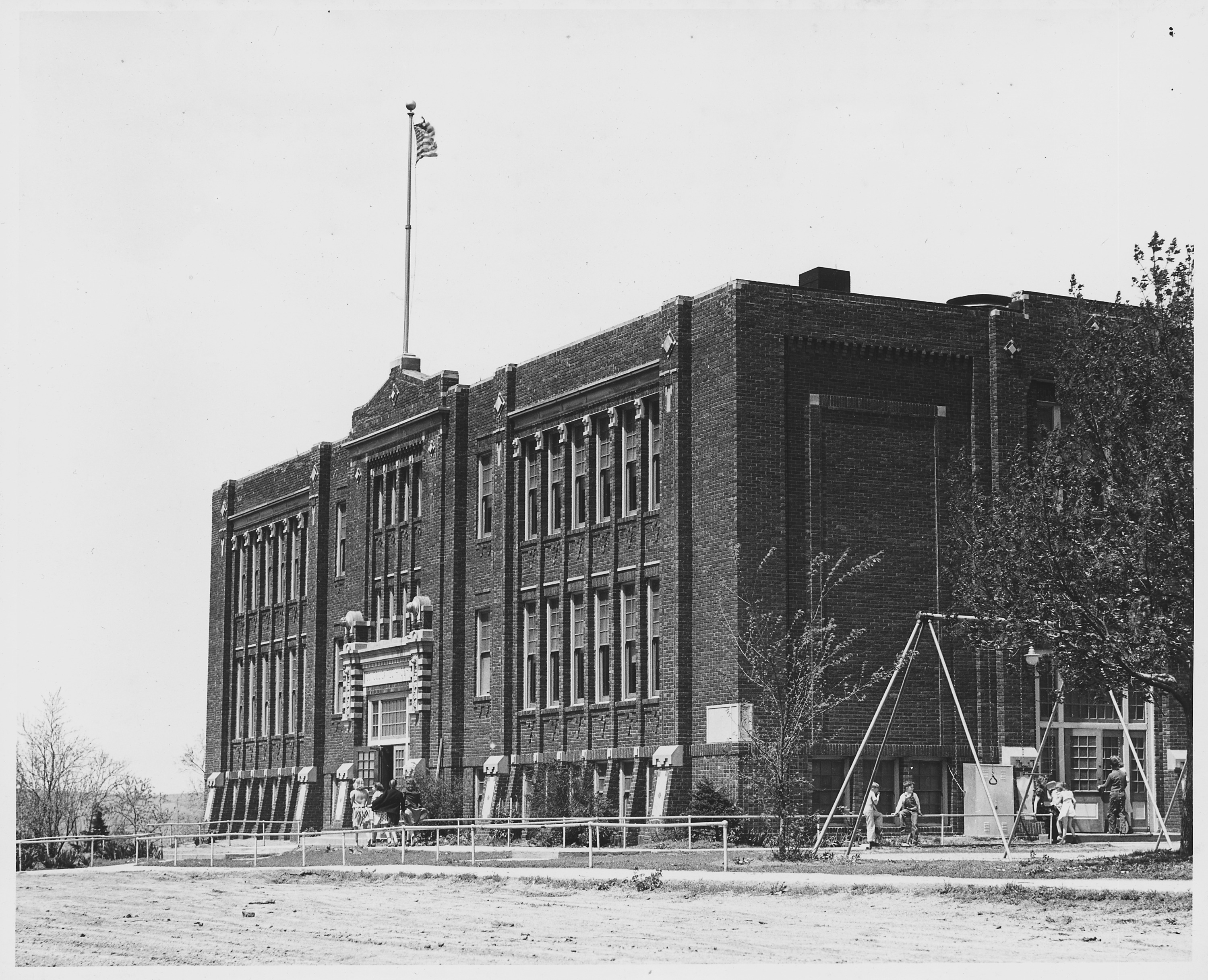 Scope and content: Full caption reads as follows: Shelby County, Iowa. The general attitude in this community about education is that every child should go through high school, but that, unless he wants to go on into some kind of specialized work, education beyond the twelfth grade is unnecessary. Irwin Consolidated High and Grade School. Besides this, there are 11 country schools, of which 9 were in operation during 1940. ...[Image was] taken in and around the Consolidated School.